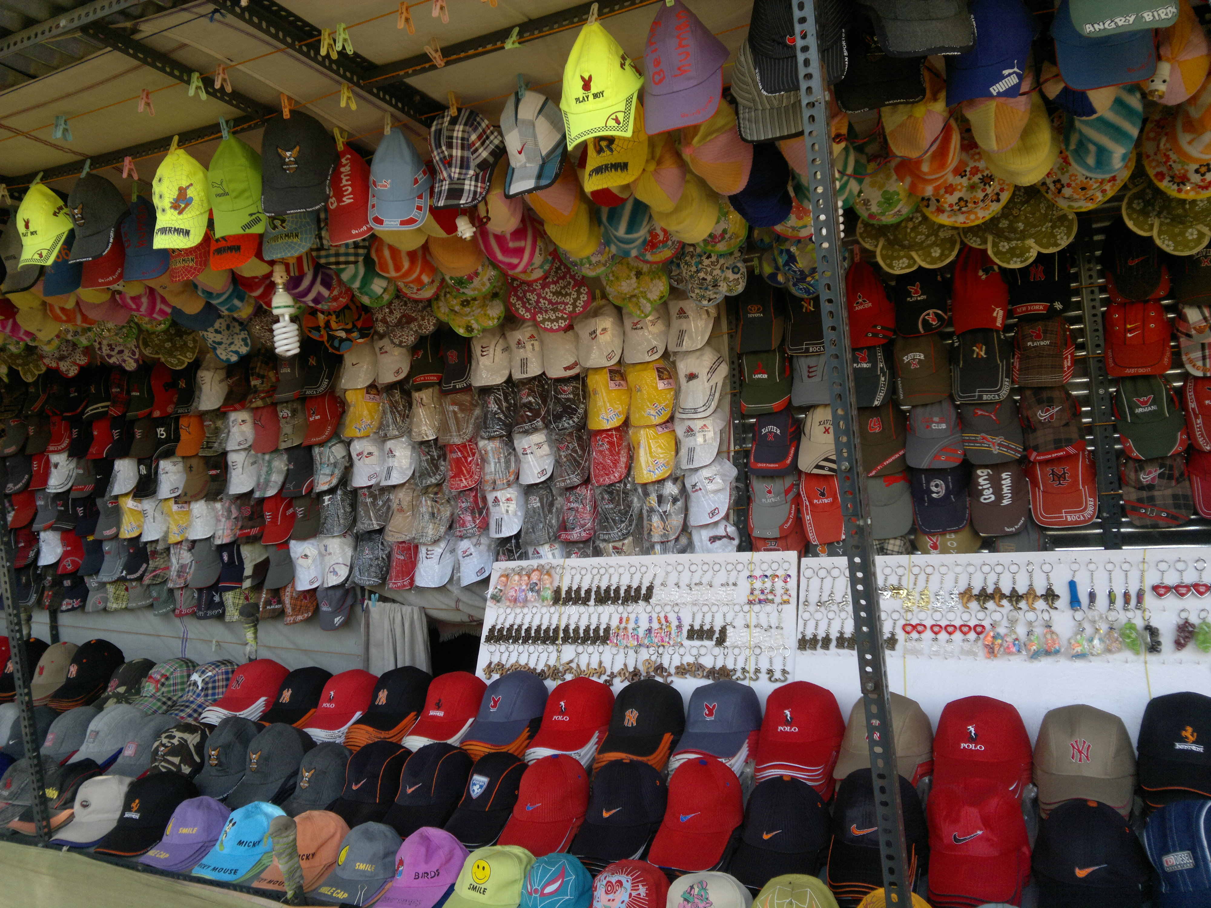 Shops on the way to Mailam temple